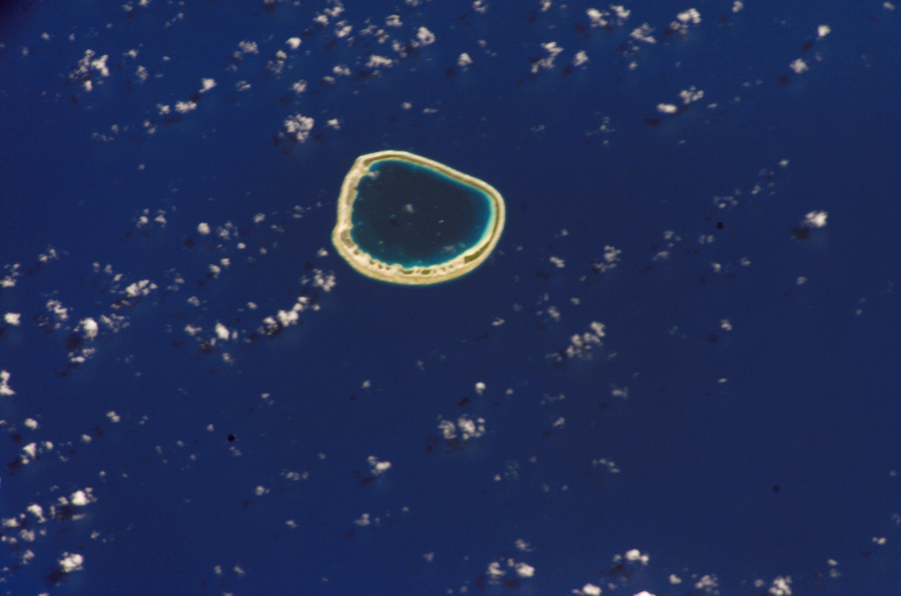 NASA astronaut image of Ahunui Atoll (Tuamotu Archipelago, French Polynesia) in the Pacific Ocean